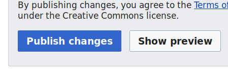 Mediawiki preview button